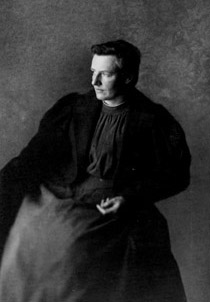 Photograph Dr. med. Hope Bridges Adams Lehmann, 1898